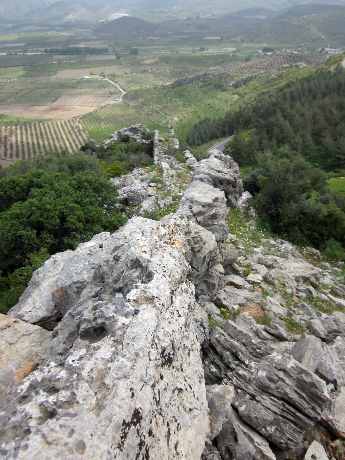 Ancient city wall of Ephesos. Near Selçuk, İzmir Province, Turkey